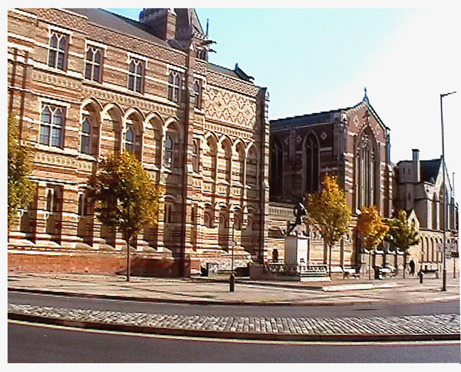 Photographie du Collège de Rugby (Rugby School), Warwickshire, Angleterre.